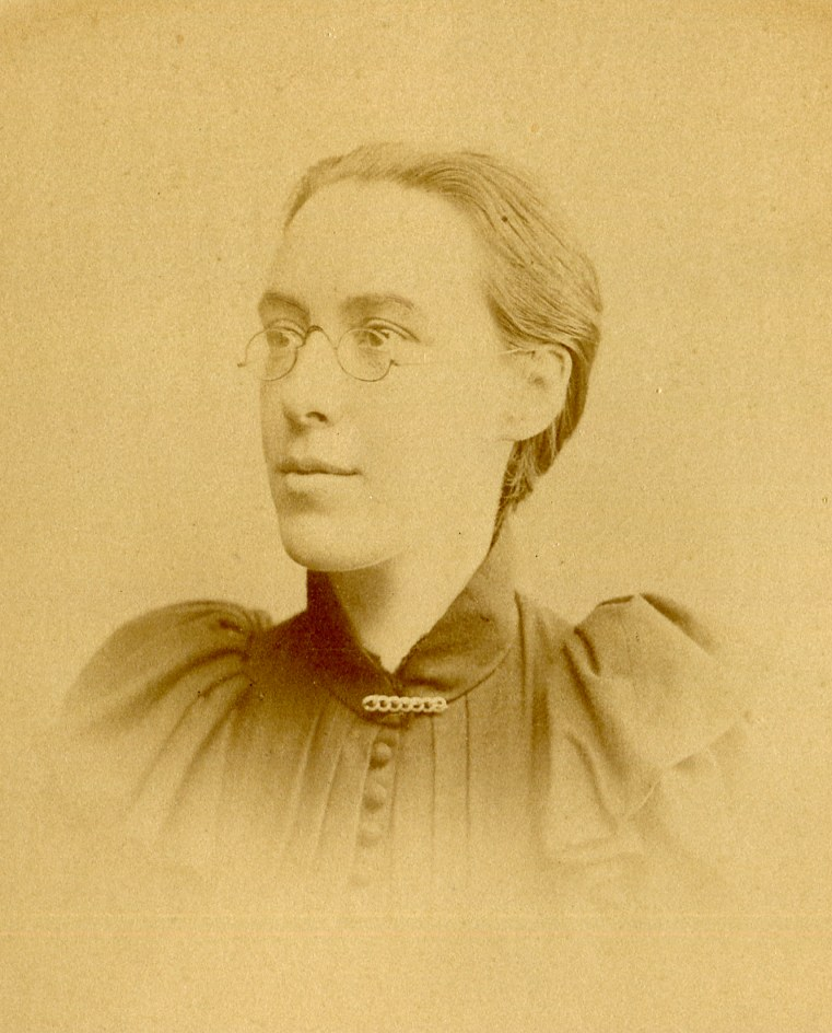 Photograph of Margaret Seward in the Somerville College archives, dated 1885.